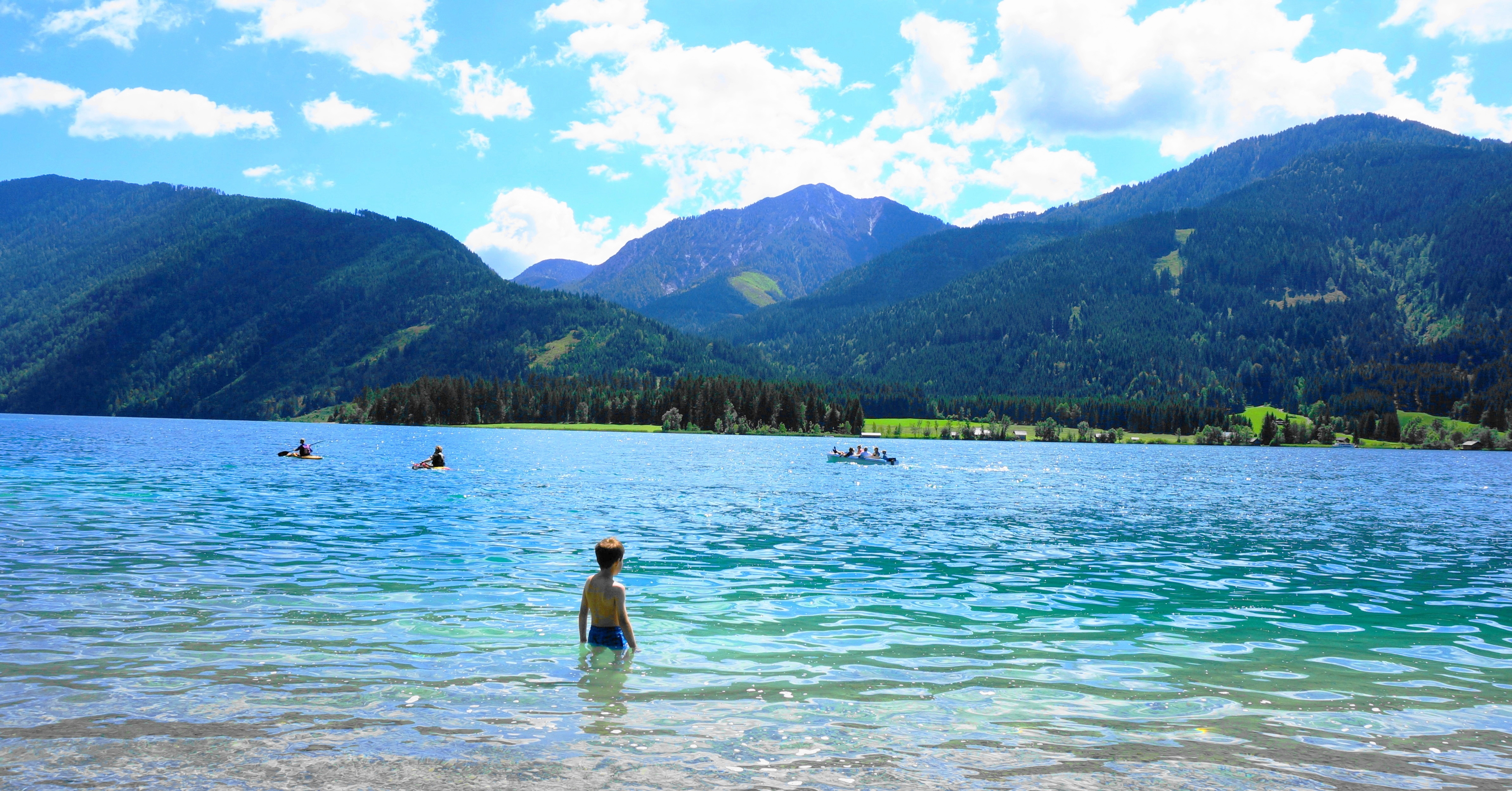 Weissensee lake in Upper Carinthia, district Hermagor, Austria, EU